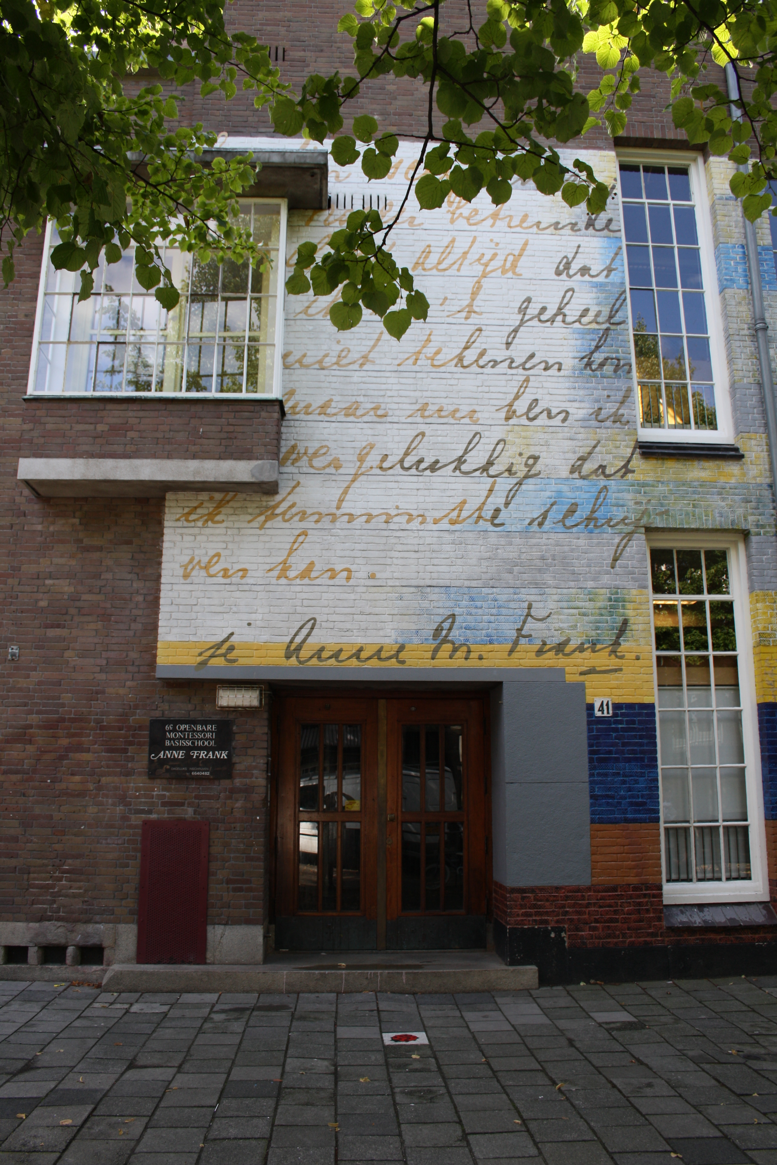 No. 6 Public Montessori Primary School Anne Frank. Frank attended this school, and the façade shows pages from her diary.